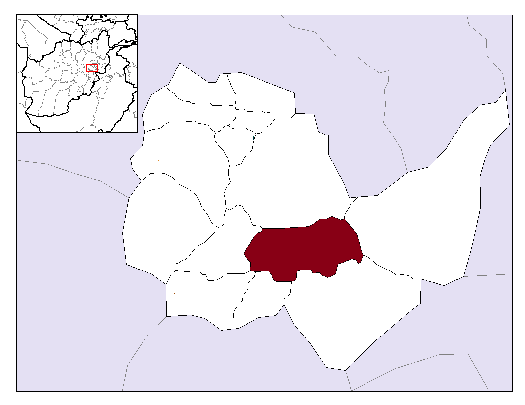 District locator in Kabul Province